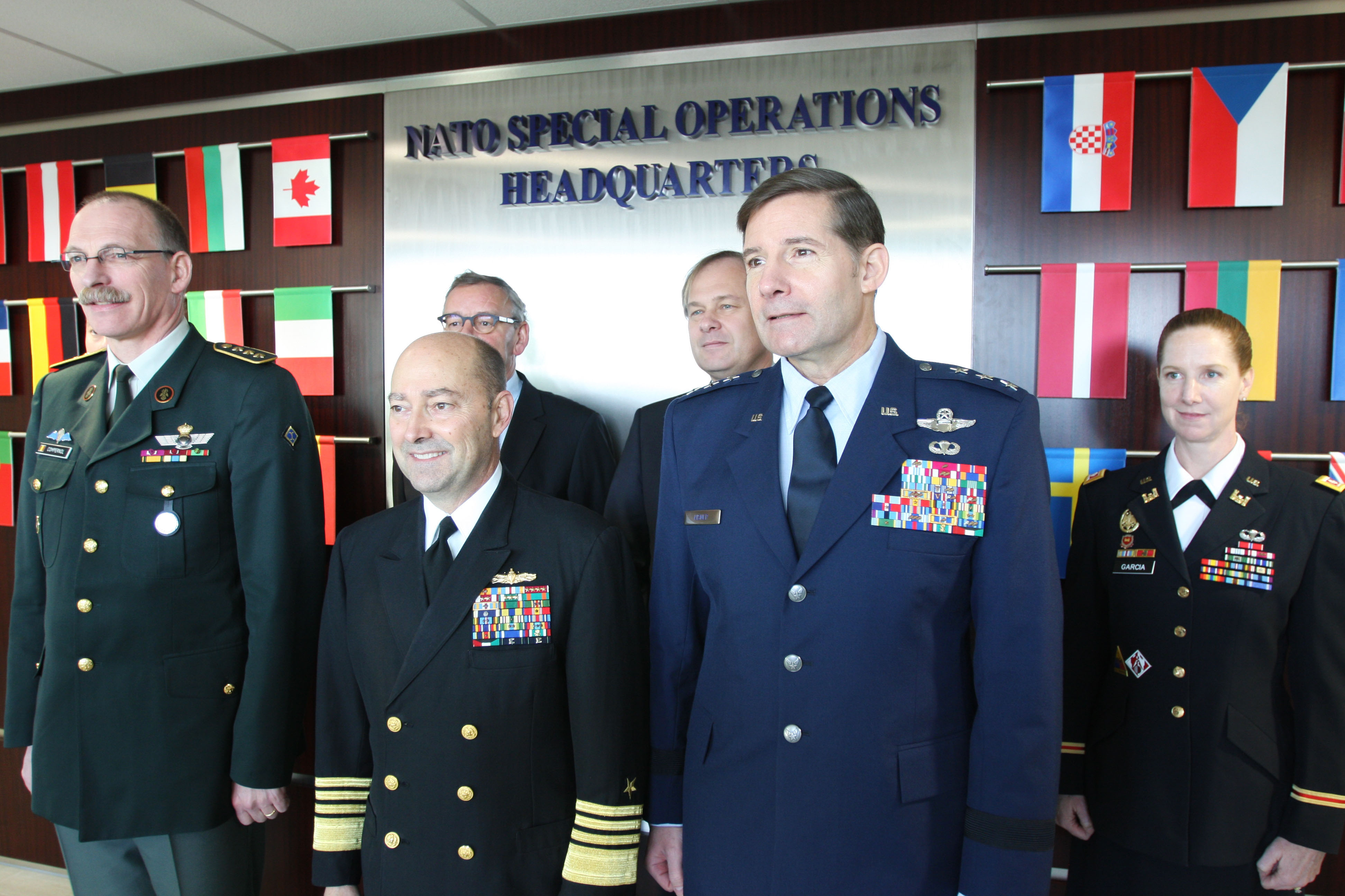 NATO special operations forces, comprised of 26 member nations and three non-NATO partners, celebrate the completion of a new state-of-the-art, 23,000-square-foot headquarters building during a ribbon-cutting ceremony Dec. 12 at SHAPE in Mons, Belgium. NATO's Supreme Allied Commander Europe, Adm. James Stavridis, center left, and Lt. Gen. Frank Kisner, NATO Special Operations Headquarters commander, addressed distinguished guests and expressed their desire for the building to serve as an ideas hub for 21st-century special operations.